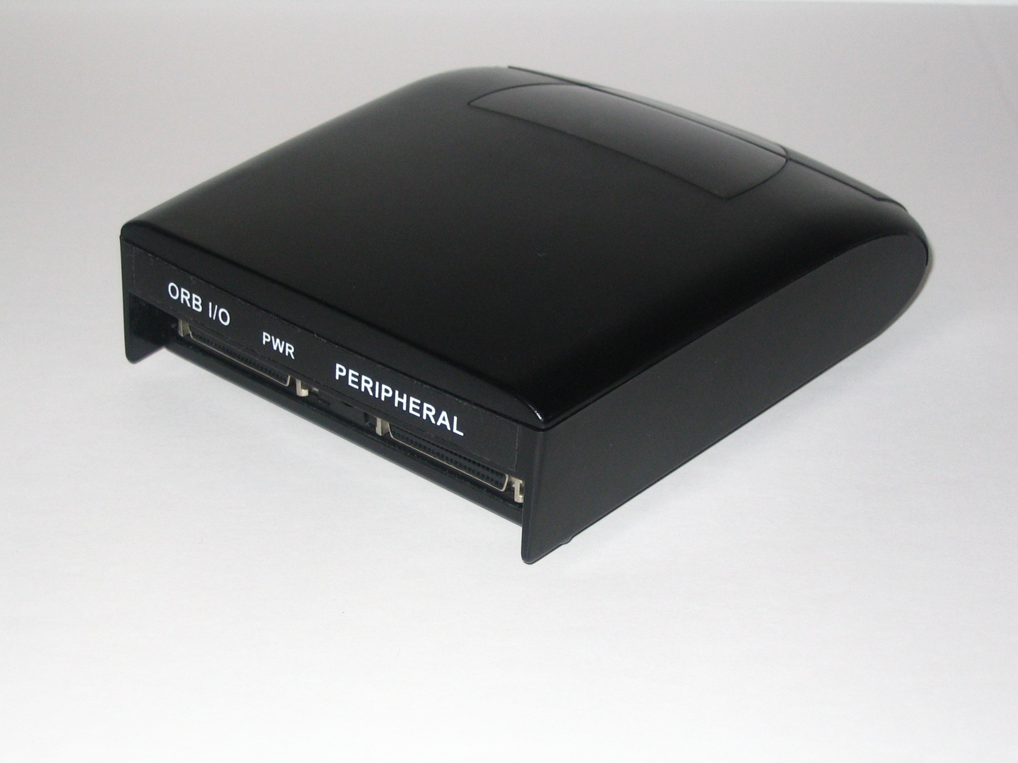 Orb Drive - External SCSI - Back Author: ckmac97 Date: 05/07/2006